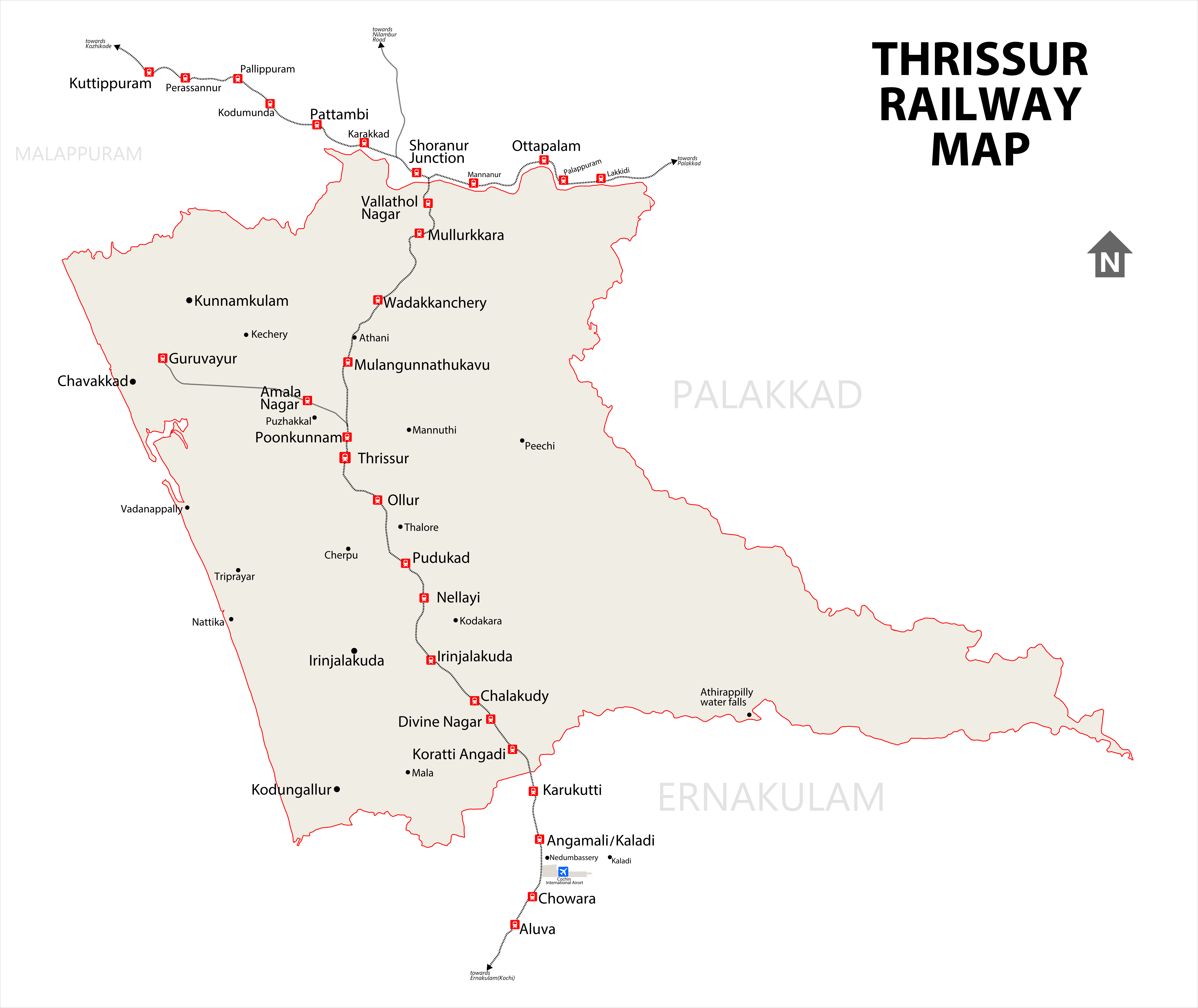 Map of Thrissur district, showing railway line and railway stations This vector image was created with Inkscape.